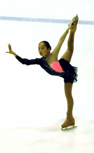 Kim Hyeon-Jung (KOR) at the 2008-2009 South Korean Figure Skating Championshps.